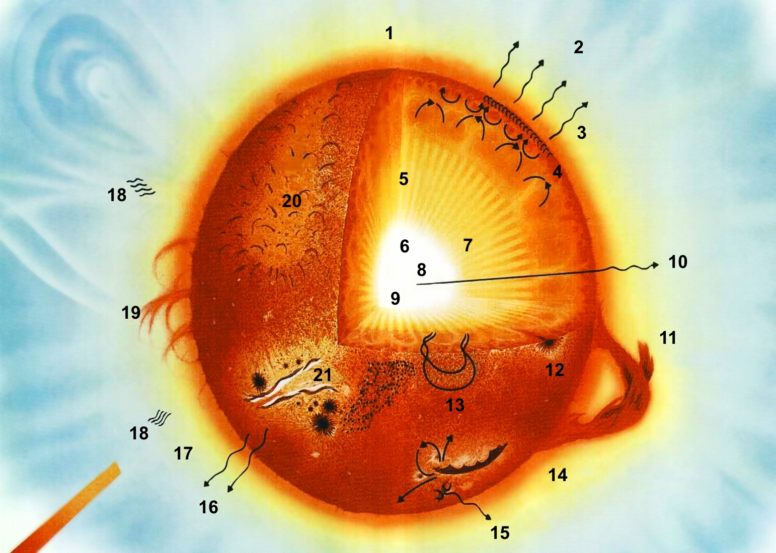 cross-section of the sun. Photosphere 6000 K Visible, IR and UV radiation Turbulent convection Convective zone 2100000 K Core Radiative zone Thermonuclear reactions 14000000 K Neutrinos Prominence Spot Magnetic field loop Bright spots and short-lived magnetic regions X radiations X and γ radiations Energetic particles Radio emission Coronal loops Coronal hole Chromospheric flare